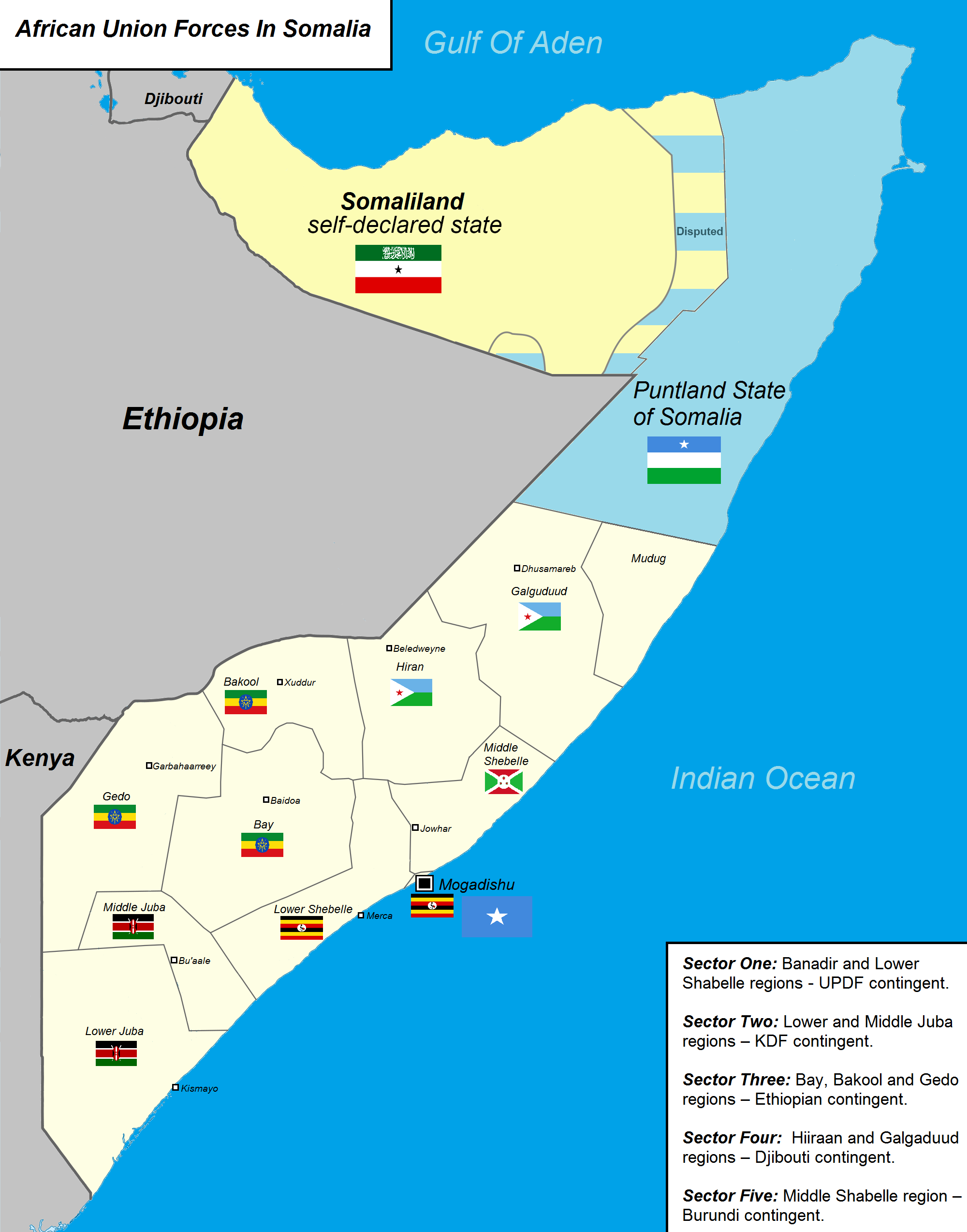 How many foreign troops are in Somalia.